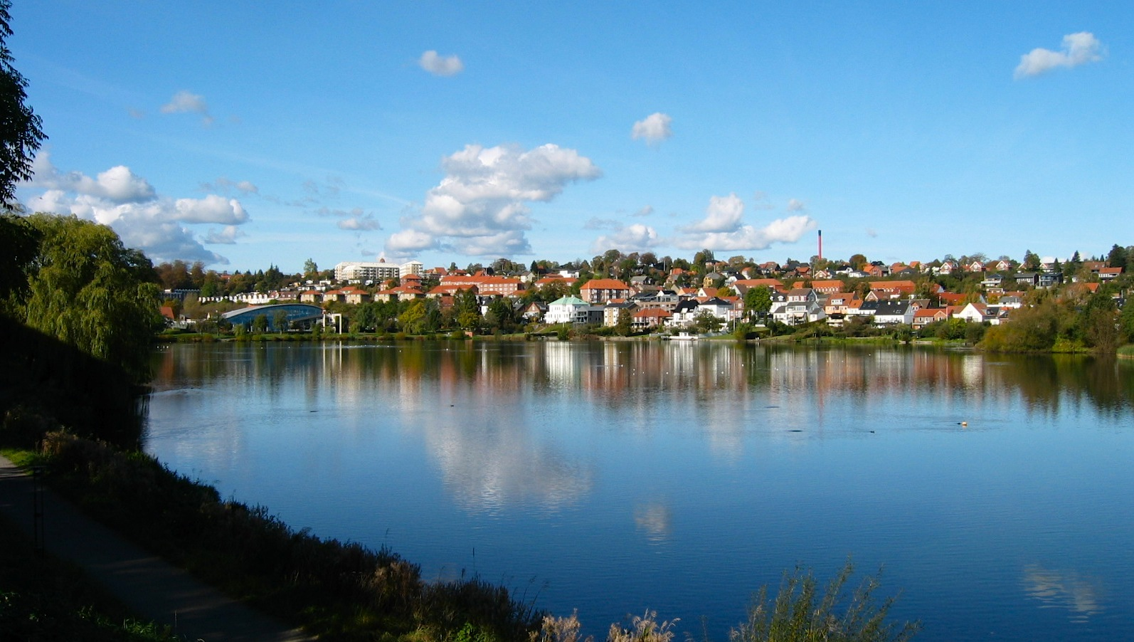 A general view of Kolding with the Slotsø Lake, Denmark